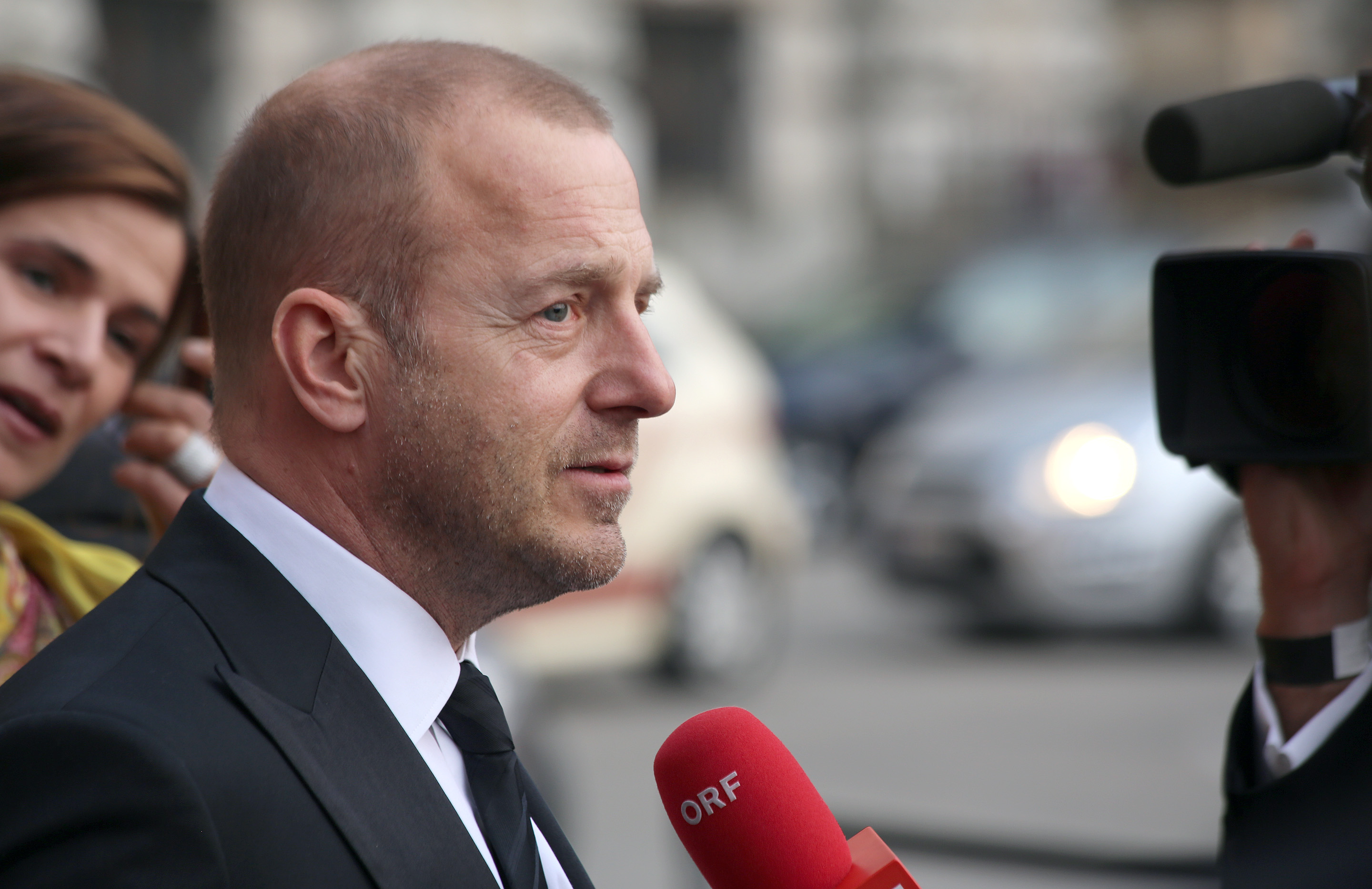 Heino Ferch at the Romy film awards (Hofburg Imperial Palace in Vienna)